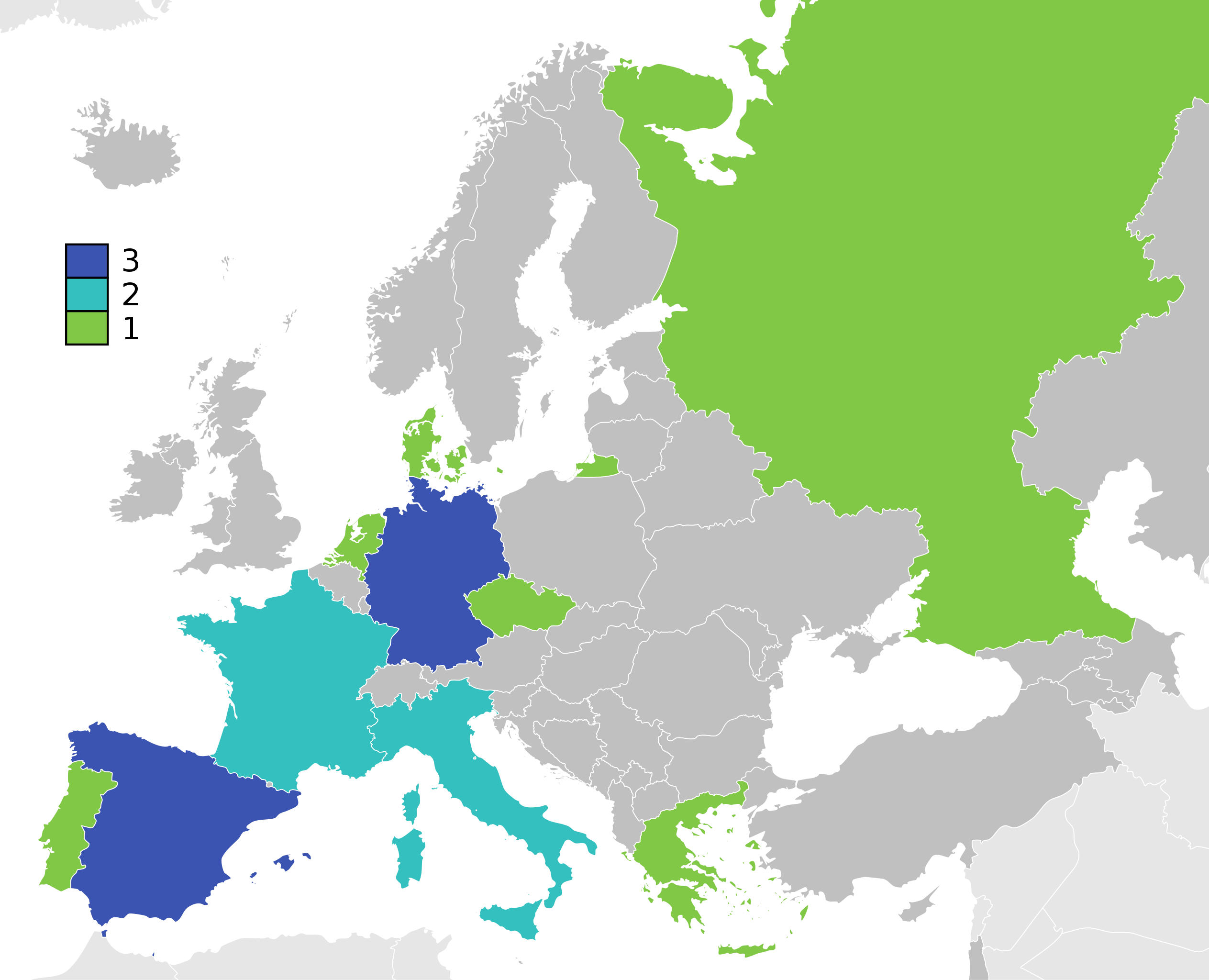 UEFA European Football Championship winners (colors). Based on Image:BlankMap-Europe.png and Image:World cup countries best results and hosts.PNG